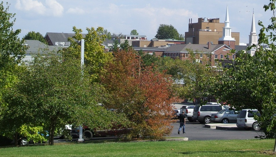 Cookeville downtown